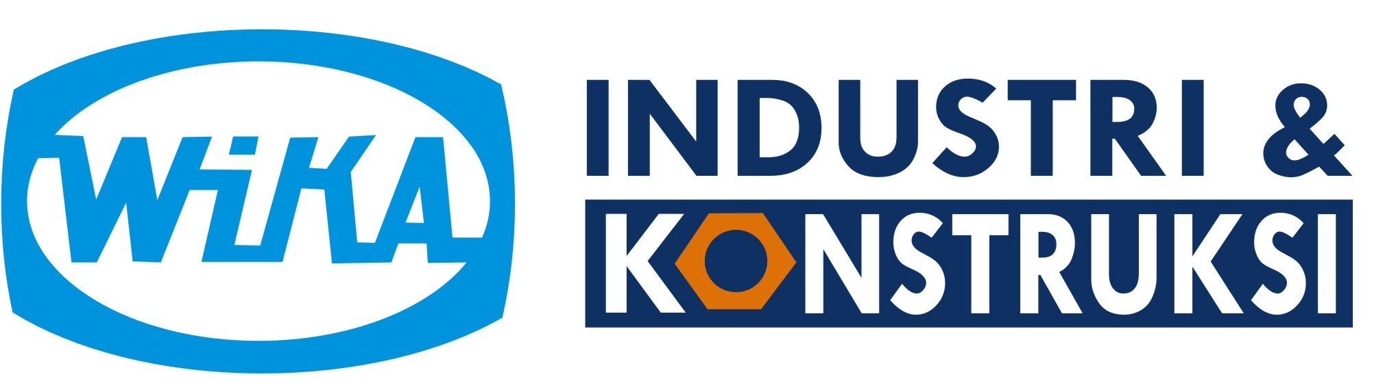 WIKA Industri & Konstruksi